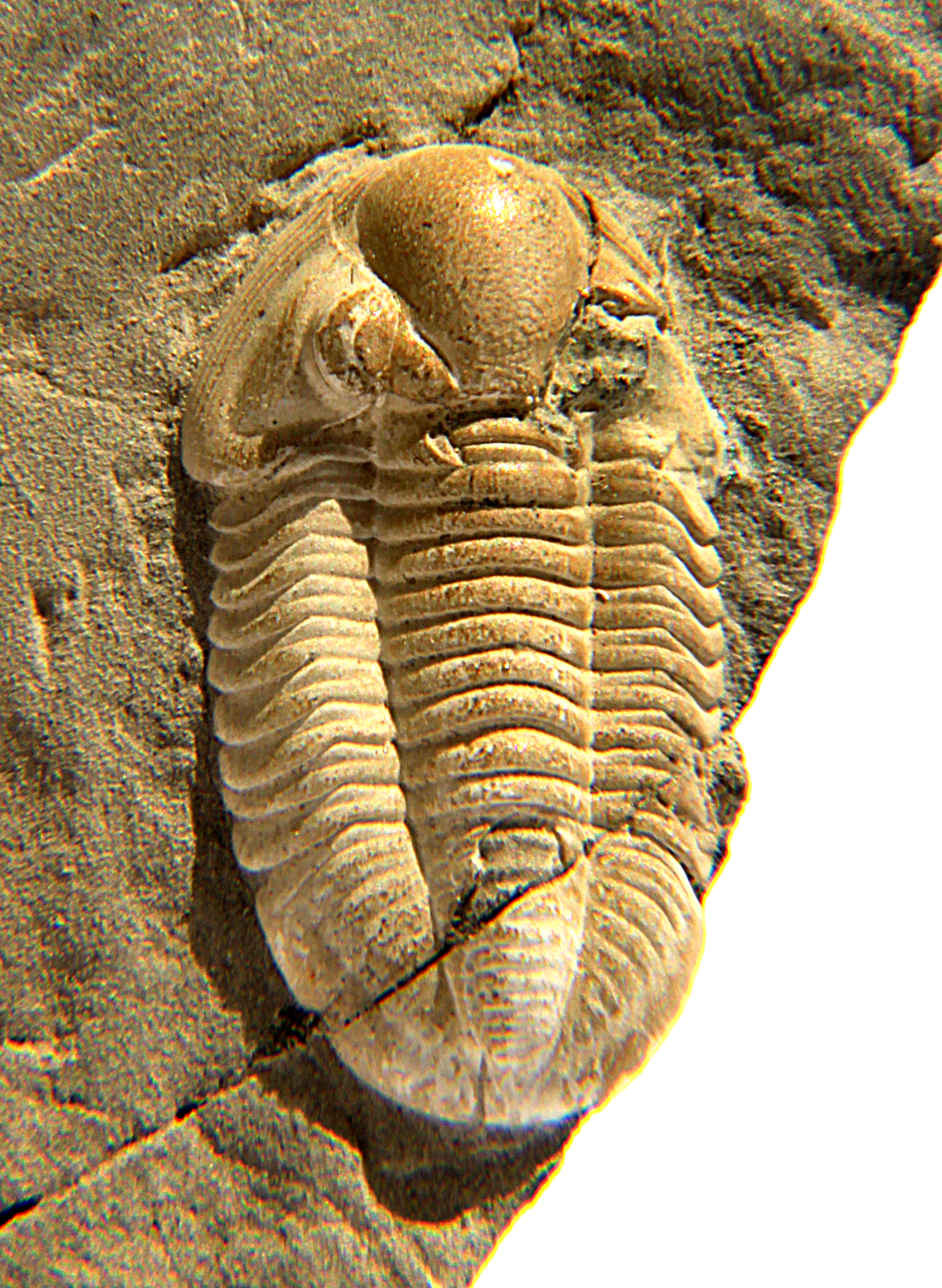 A specimens of Cummingella belisama, Order Proetida, Family Proetidae, 18mm along the axis, dorsal view, lighter shading, collected from the Kohlenkalk of Tournai, Belgium, from the Lower Carboniferous/Missisippian (Tournaisian)